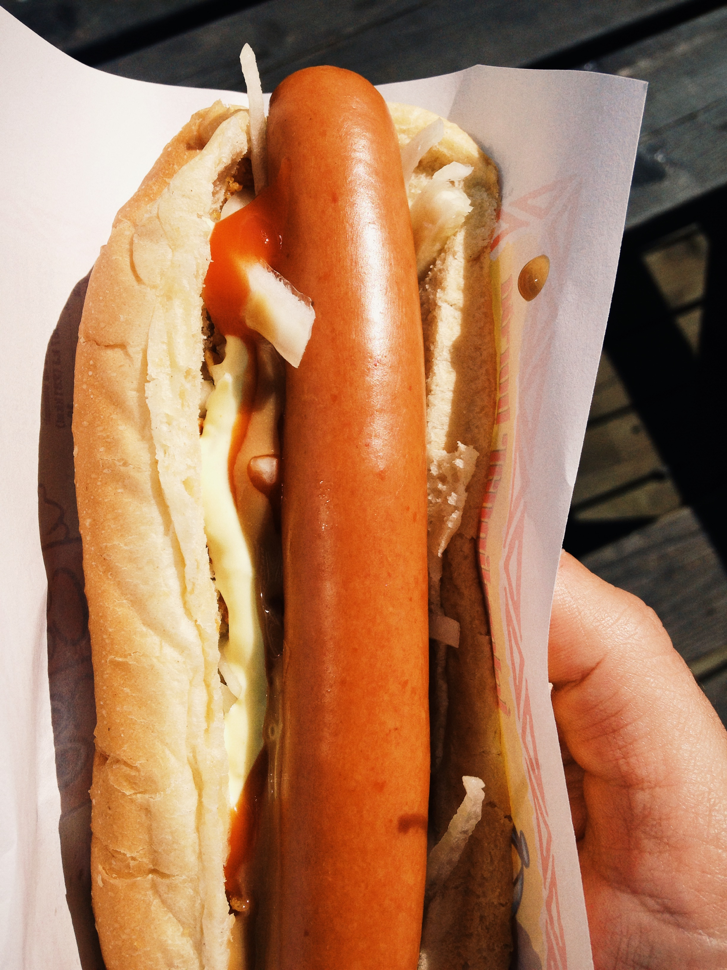 A hot dog in Island. Includes fried and raw onions and a dark mustard.